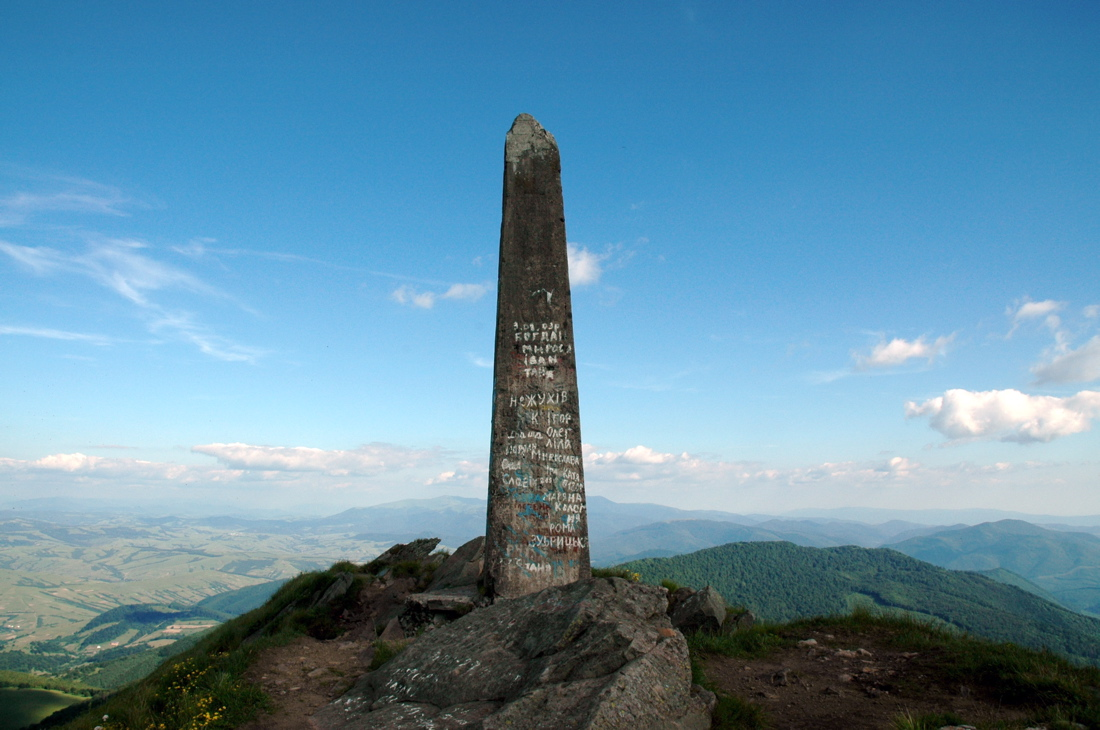 Obelisk on Pikuy, the highest peak of the Bieszczady Mountains (1405 m)